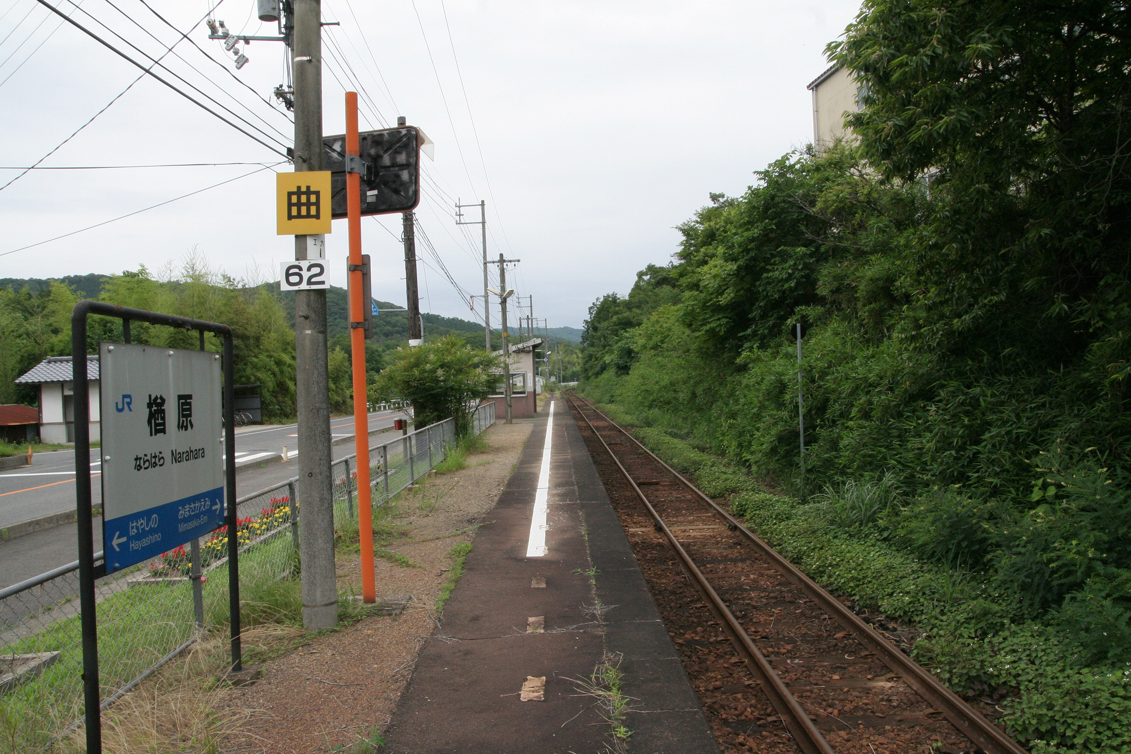 West Japan Railway Kishin Line Narahara Station enclosure